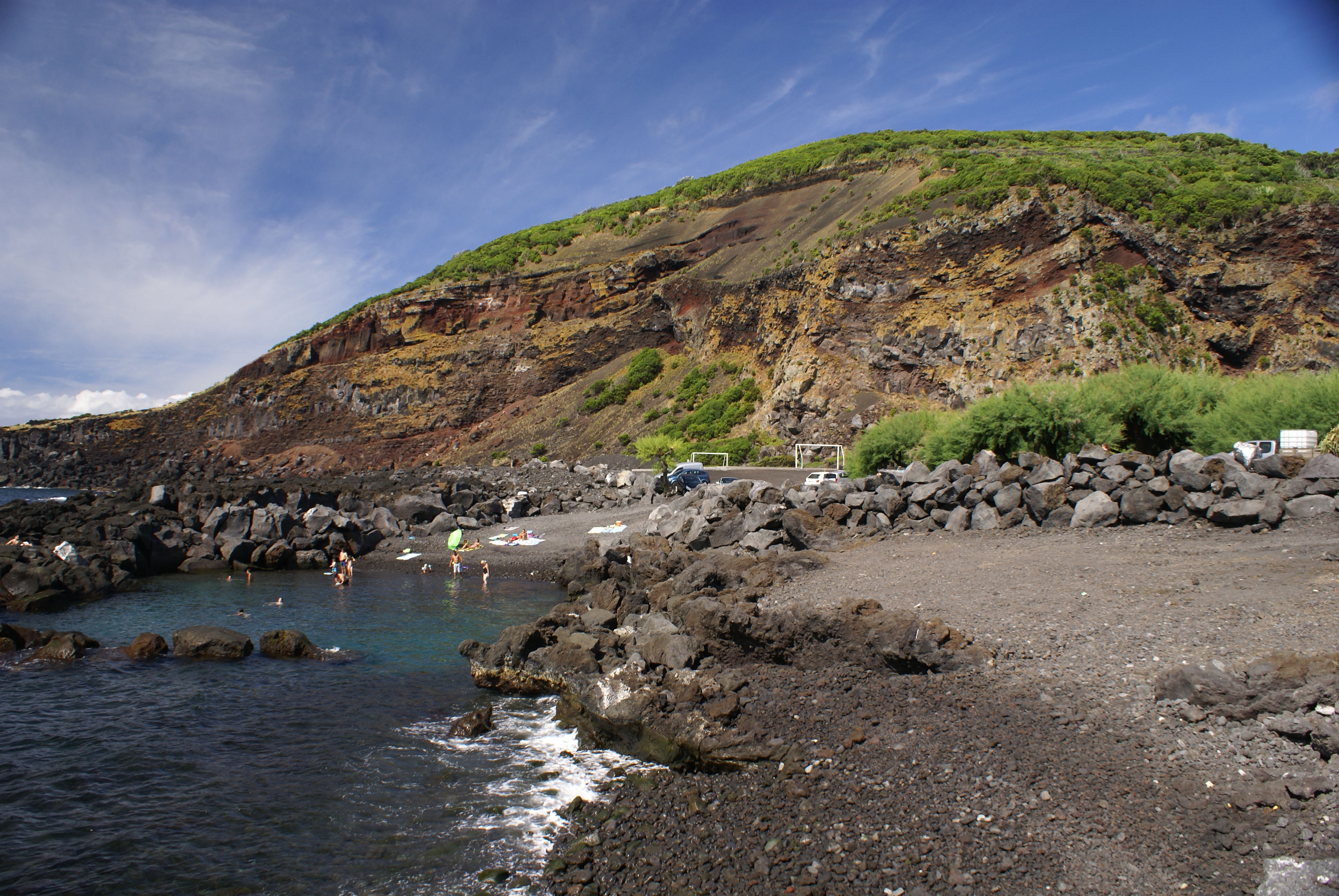 The beach of Praia da Baía do Pocinho, Pocinho, civil parish of Candelária, municipality of Madalena do Pico (Azores), Portugal